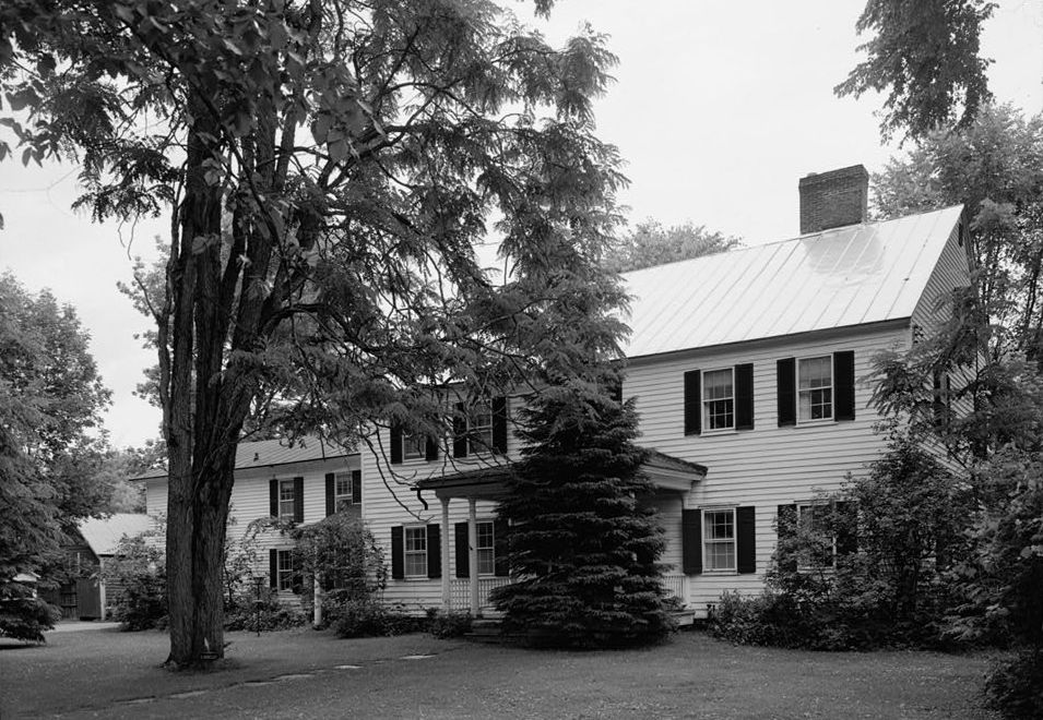 General William Floyd House, Westernville, New York, near Rome. View from southeast of the south front of house. This is a retouched picture, which means that it has been digitally altered from its original version. Modifications: cropped to remove excess border.